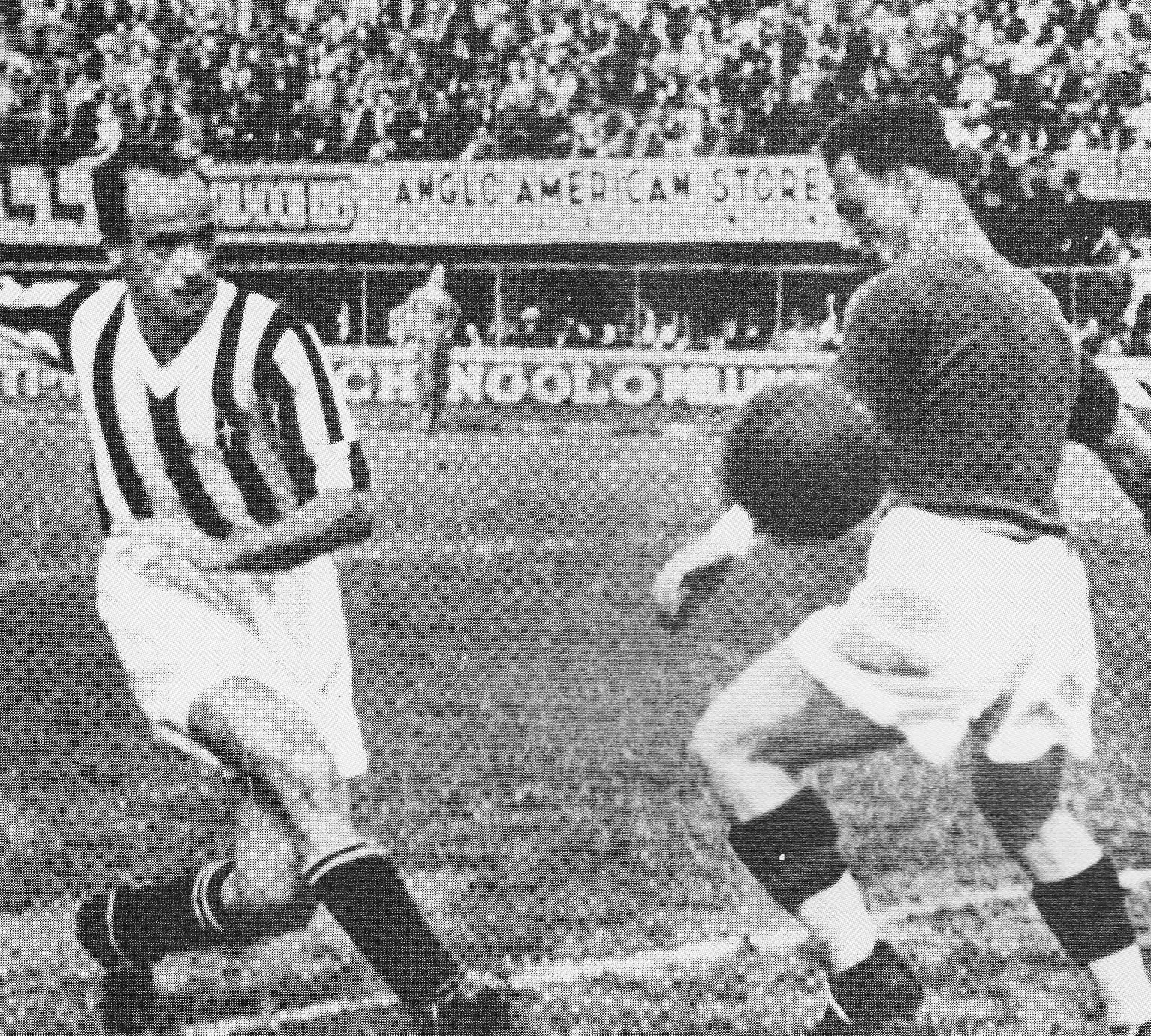 Florence (Italy), Giovanni Berta Stadium, June 2, 1935. A.C. Fiorentina — F.B.C. Juventus 0-1, Matchday 30 of the Italian Championship 1934–35 Serie A: Juventus's midfielder Giovanni Ferrari (left) scores at 81' the winning-goal for his team.